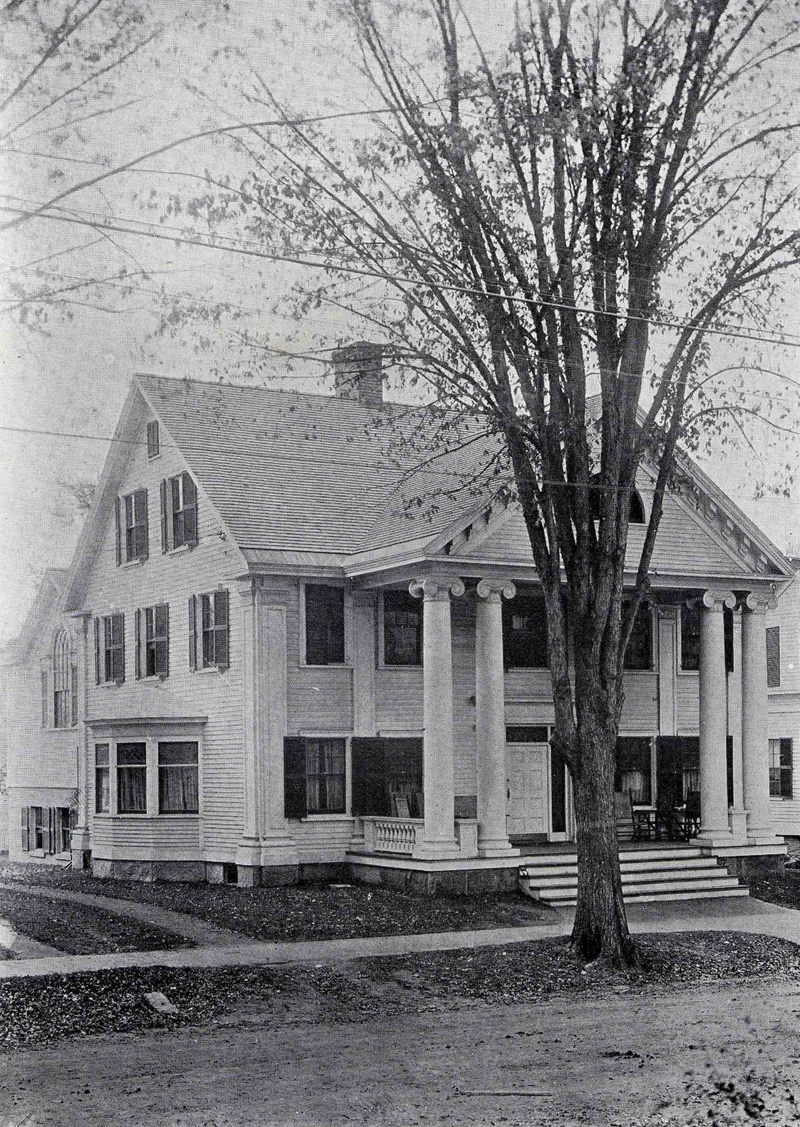 A photo of the physical plant of Delta Kappa Epsilon, a fraternity at Dartmouth College. See Dartmouth College Greek organizations.